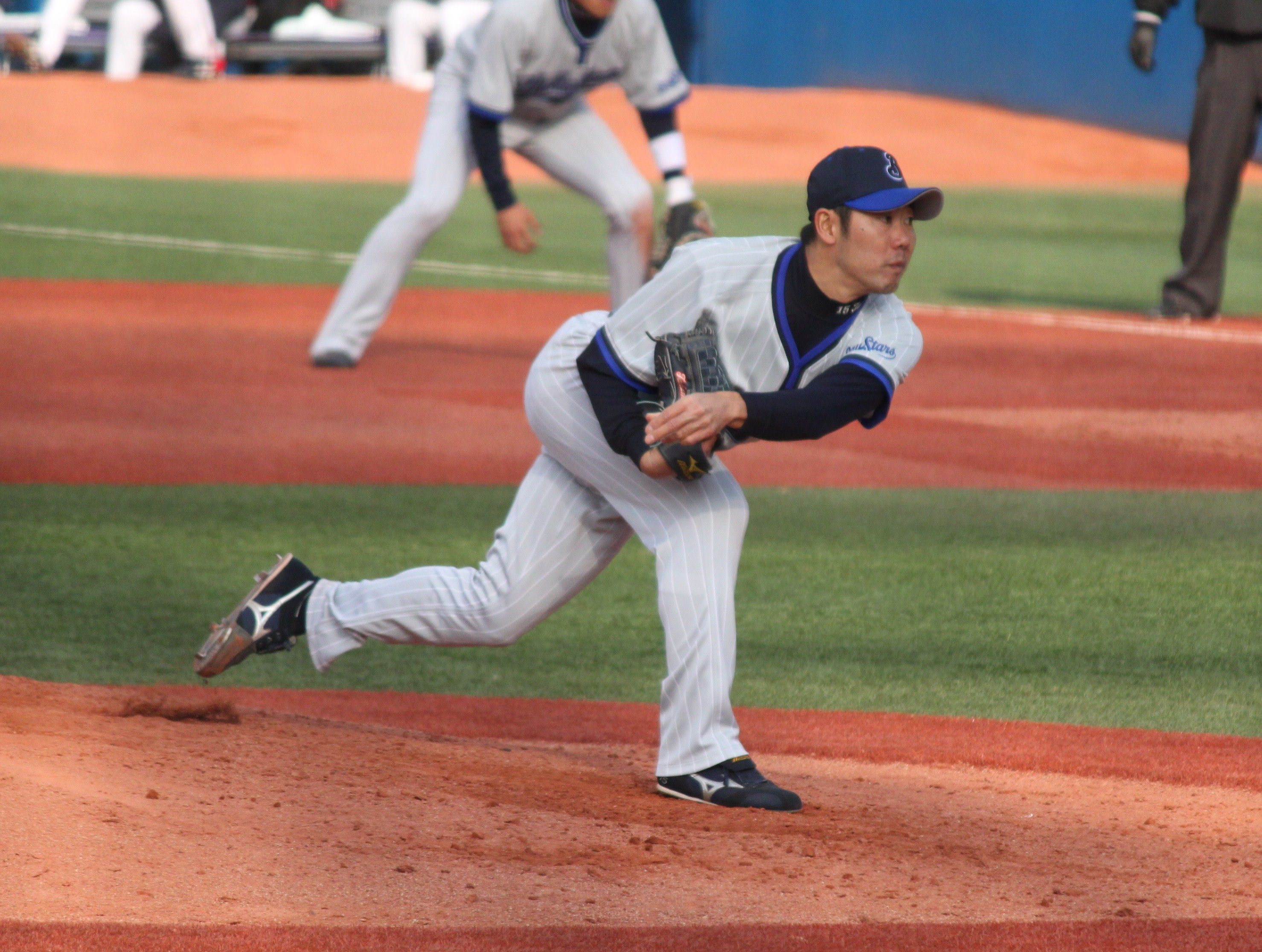 Kazuya Takamiya, pitcher of the Yokohama BayStars, at Meiji Jingu Stadium.